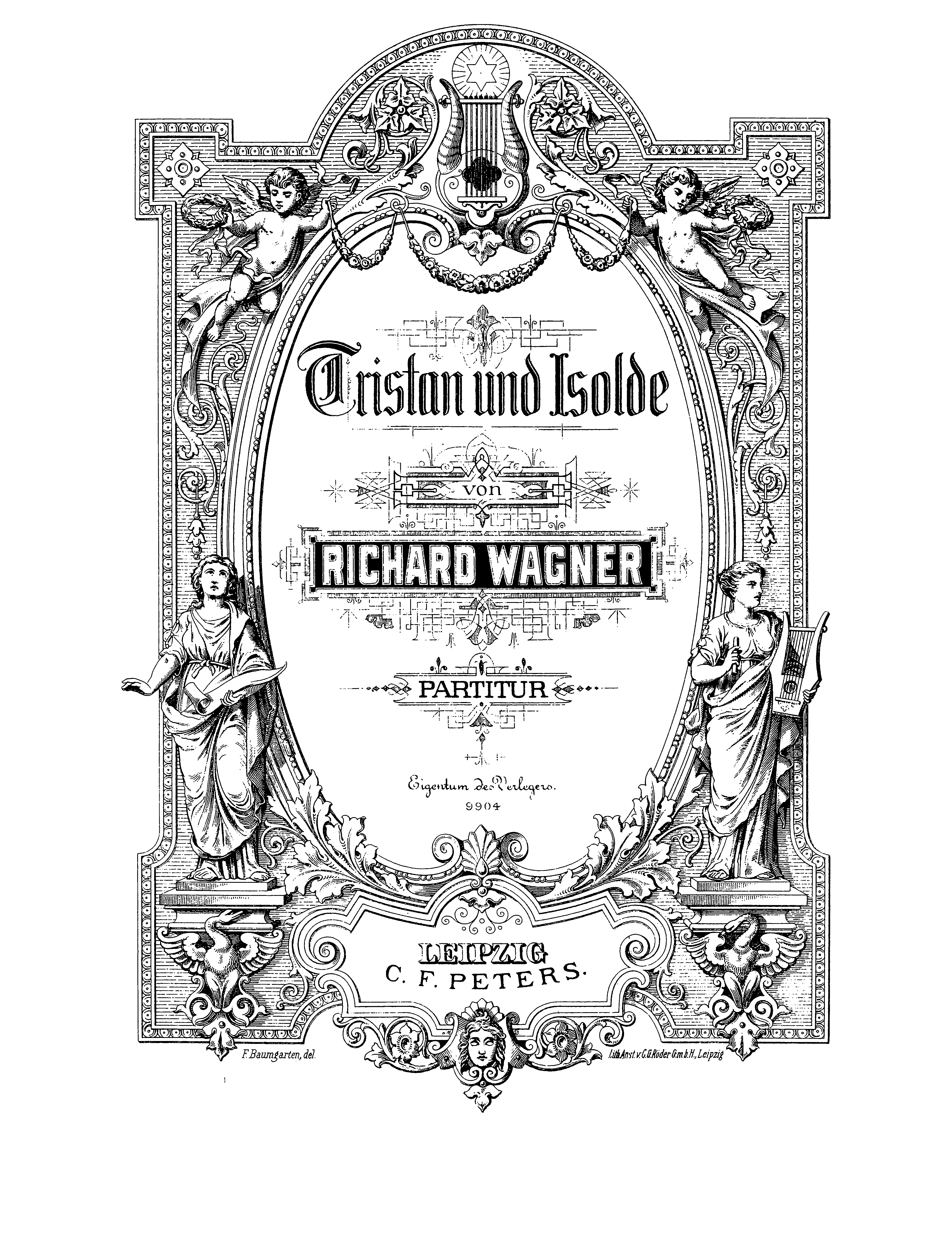 2015-226-Tristan-Score-1911-Cover-page